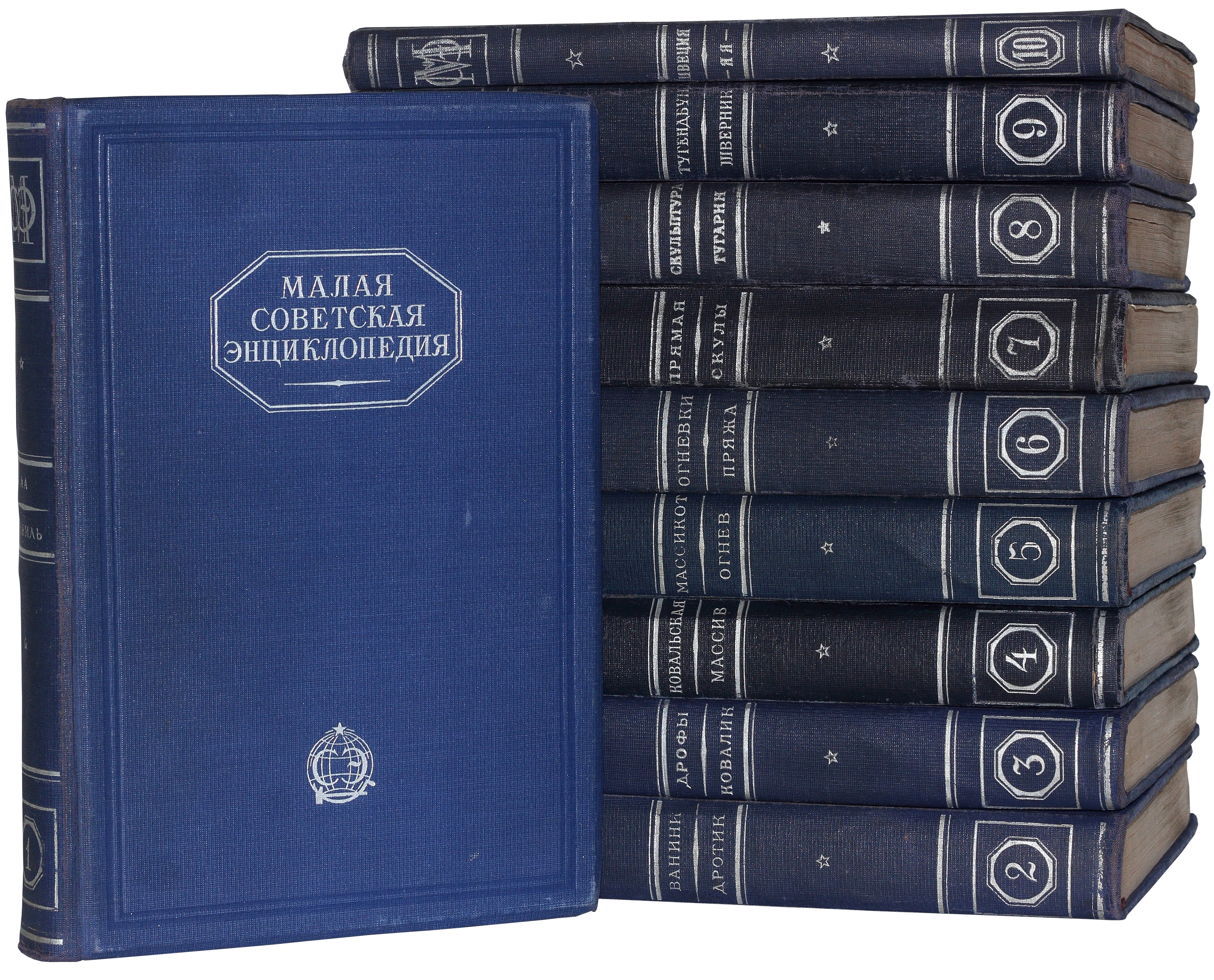 Small Soviet Encyclopedia